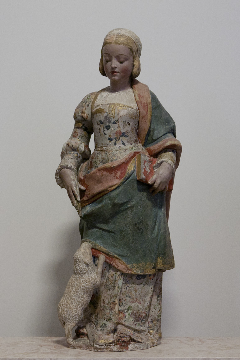 João de Ruão, Santa Inês, séc. XVI, 110 x 46 x 25 cm, Museu Nacional de Machado de Castro